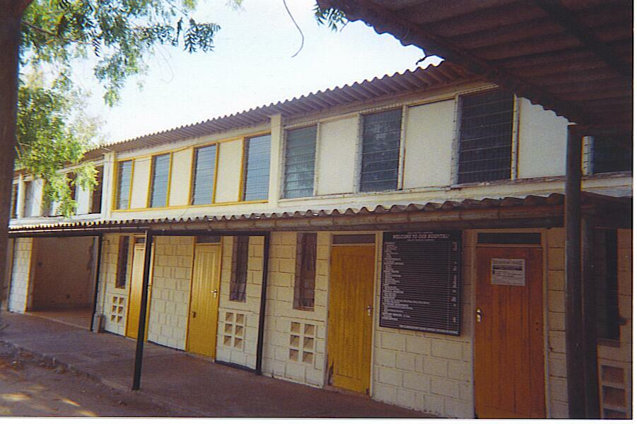 District Hospital at Hola, Kenya. Phtograph taken on a Sunday afternoon.